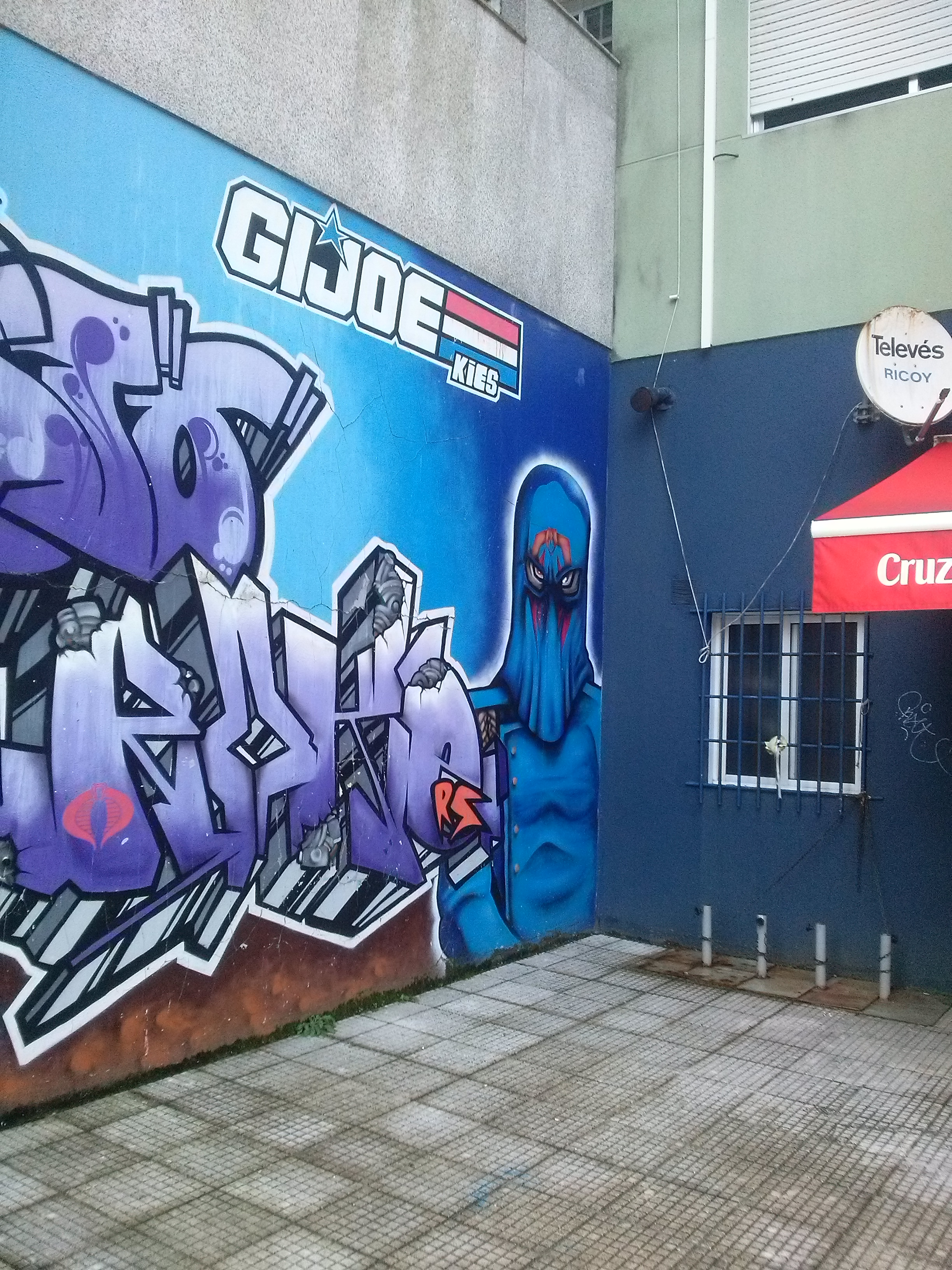 el comandante cobra